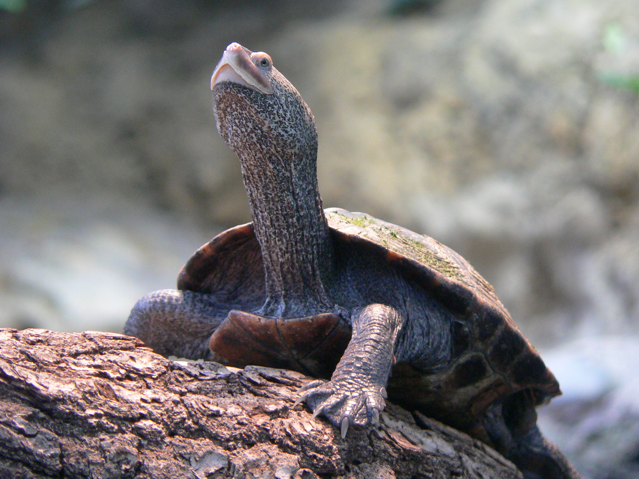 Diamondback Terrapin